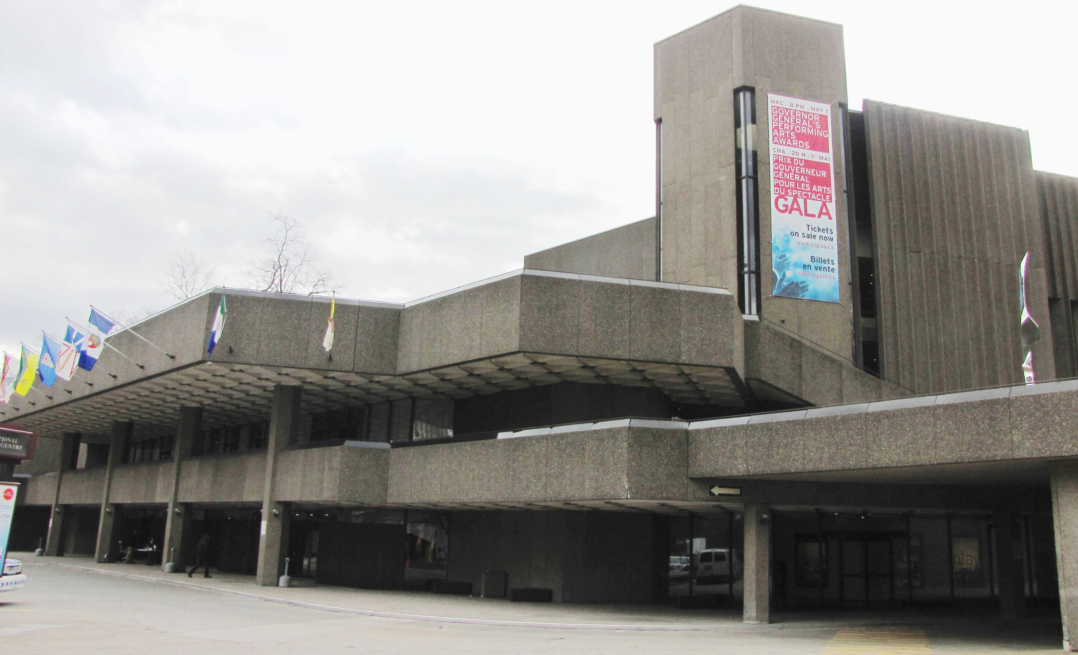 National Arts Centre, main entrance, Ottawa, Ontario, Canada